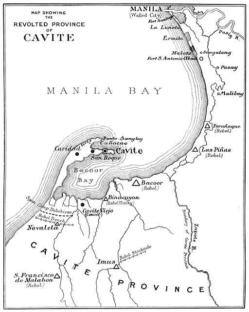 Map of Cavite province, Philippines showing the stockade during 1896 Philippine Revolution. Map taken from The Philippine Islands: A Political, Geographical, Ethnographical, Social and Commercial History of the Philippine Archipelago, Embracing the Whole Period of Spanish Rule by John Foreman, published 1906 Tagalog: Mapa ng lalawigan ng Cavite sa Pilipinas, kung saan ipinapakita ang barikadang nilika noong Himagsikang Pilipino noong 1896. Ang mapa ay kinuha sa The Philippine Islands: A Political, Geographical, Ethnographical, Social and Commercial History of the Philippine Archipelago, Embracing the Whole Period of Spanish Rule ni John Foreman, nilathala 1906